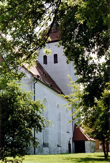 Evangelical St. John's church in Reichenbach/O.L.